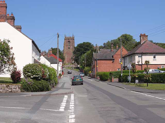 Cheswardine High Street, near to Cheswardine, Shropshire, Great Britain. Leading up to the Church. The sign of the "Red Lion" SJ7129 : Tandem as planter can be seen on the left.